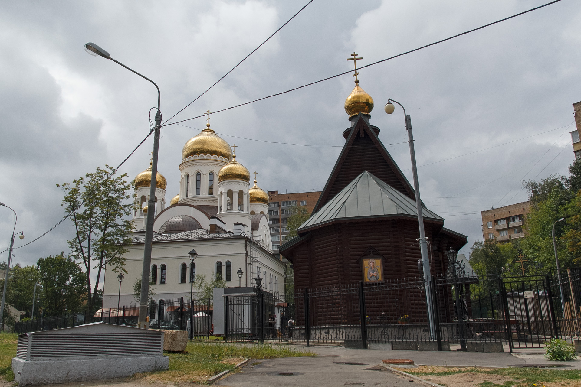 Chruches of Righteous John the Russian in Moscow. View from east.